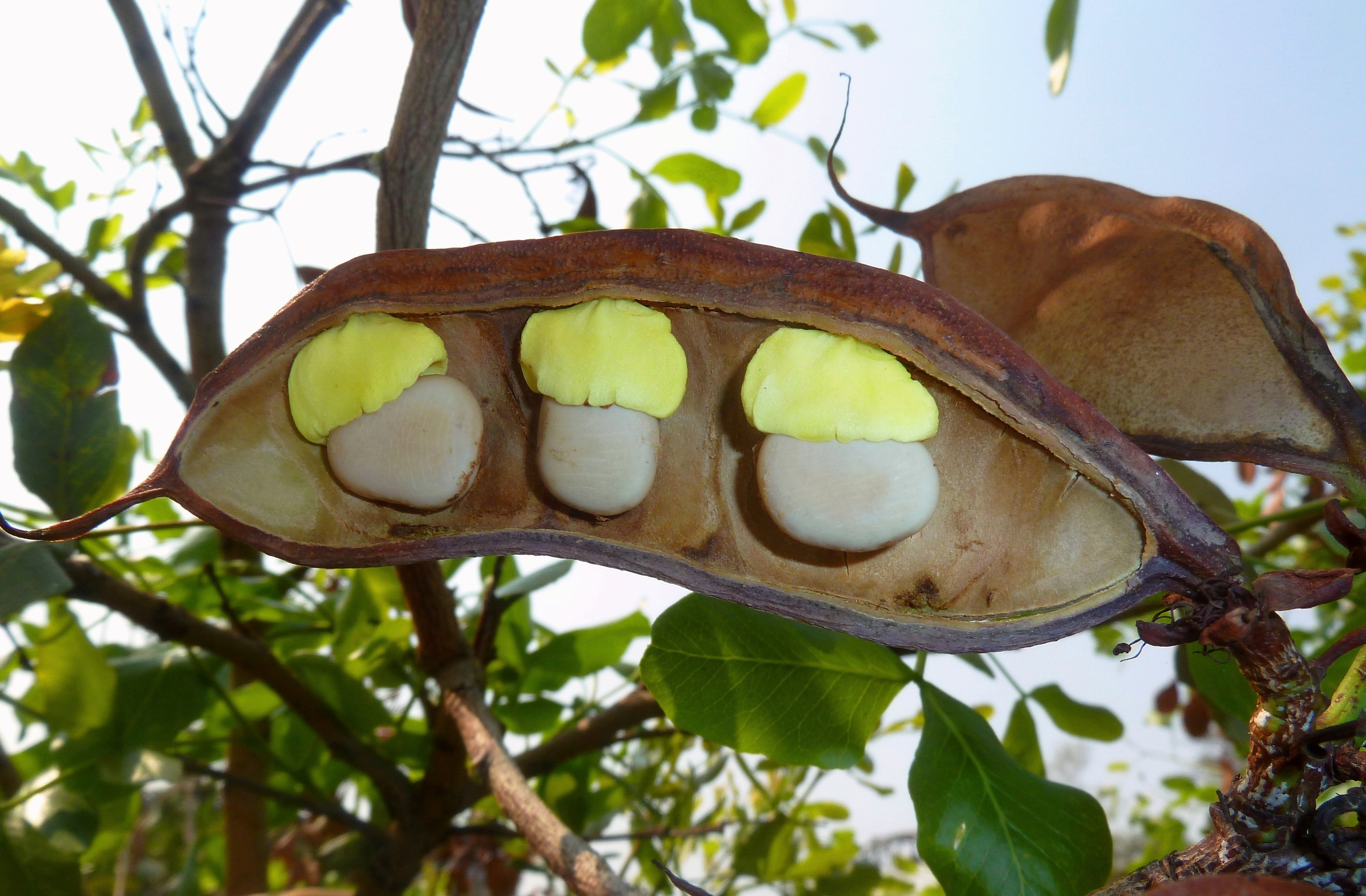 Dehisced seed pod of a Bush boer-bean in the Manie van der Schijff Botanical Garden, Pretoria. The valves naturally split away, to reveal pale brown seeds still attached to their placenta, and to their yellow, cup-shaped arils.